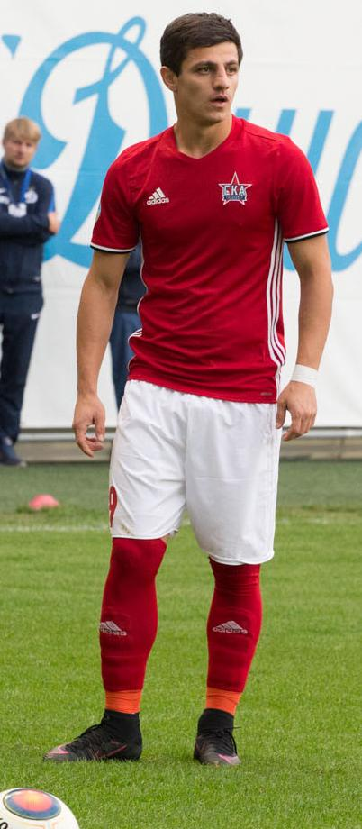 Ruslan Koryan with FC SKA-Khabarovsk against FC Dynamo Moscow.